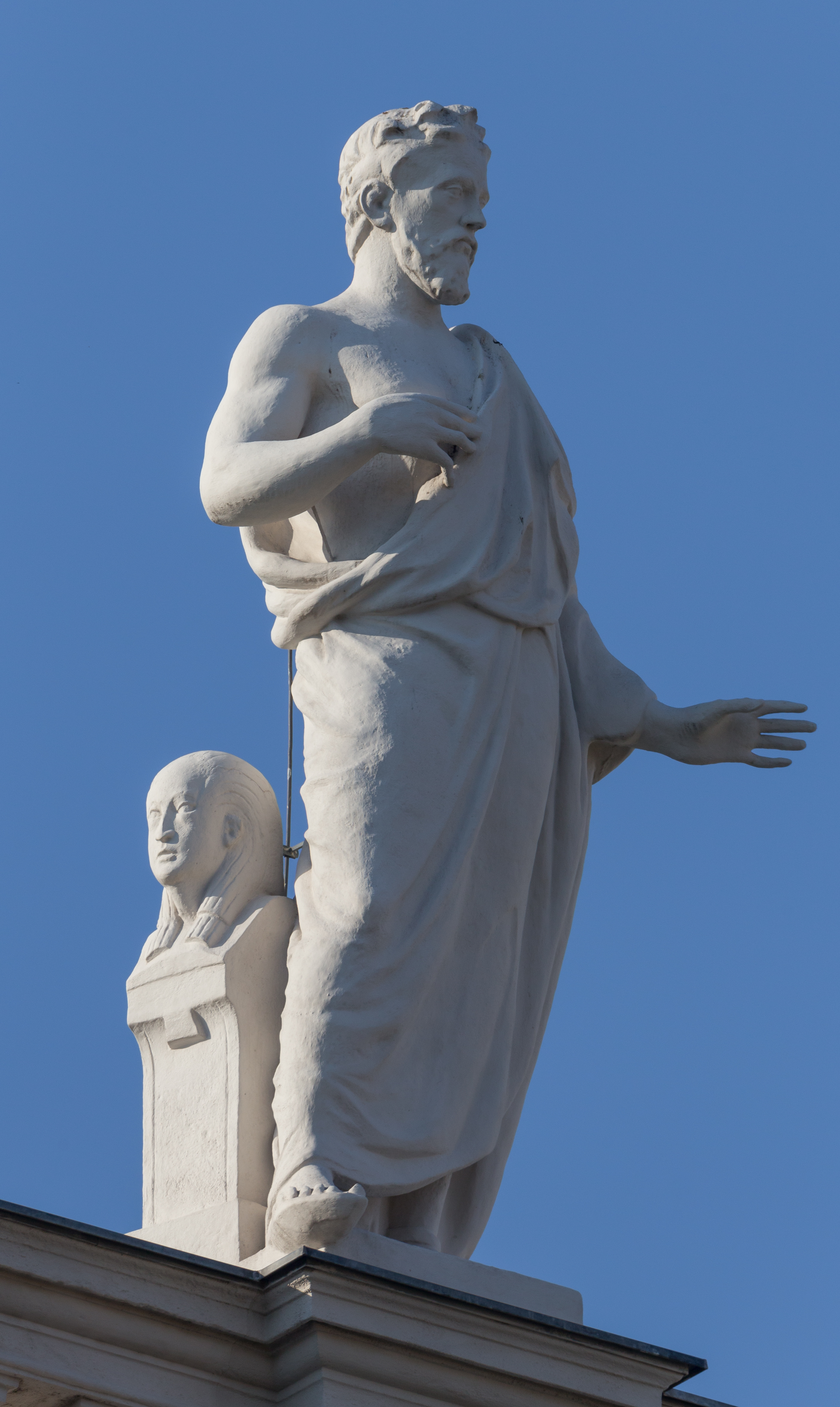 Roof figures Naturhistorisches Museum in Vienna, Austria The making of this work was supported by Wikimedia Austria. For other files made with the support of Wikimedia Austria, please see the category Supported by Wikimedia Österreich.